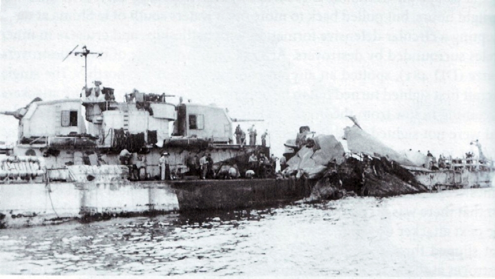 The U.S. Navy destroyer USS Leutze (DD-481) showing damage suffered after coming the assistance of USS Newcomb (DD-586) off Okinawa on 6 April 1945. A kamikaze glanced off Newcomb and exploded in the narrow space between the two ships. Leutze got much the worse of this, the upward force of the explosion damaging both propeller shafts and ripping her side open adjacent to mount 55. The damage is seen nearly a month later from both sides of her stern.